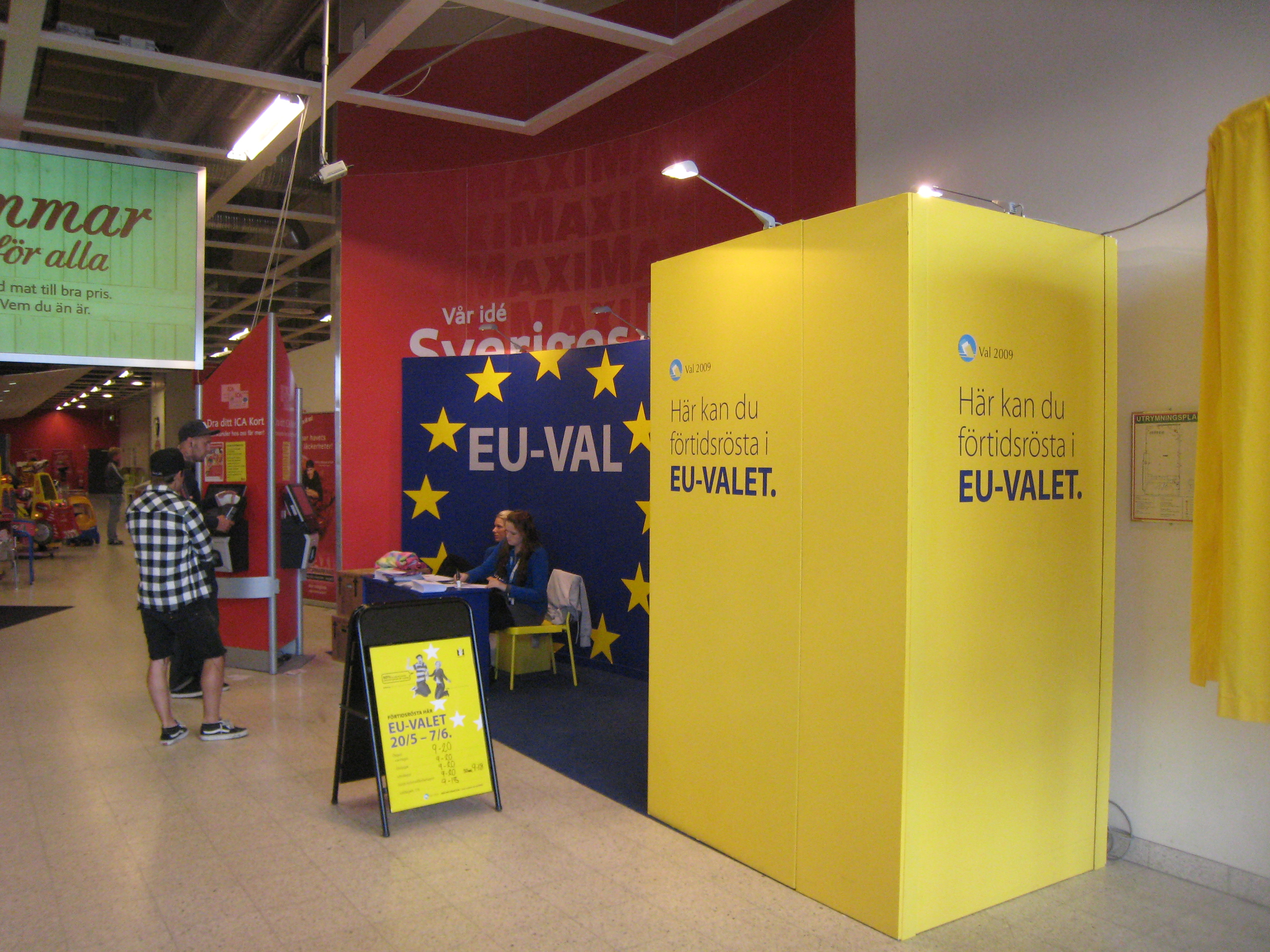 European Parliament Election 2009. Advance voting location in ICA Supermarket in Malmö, Sweden